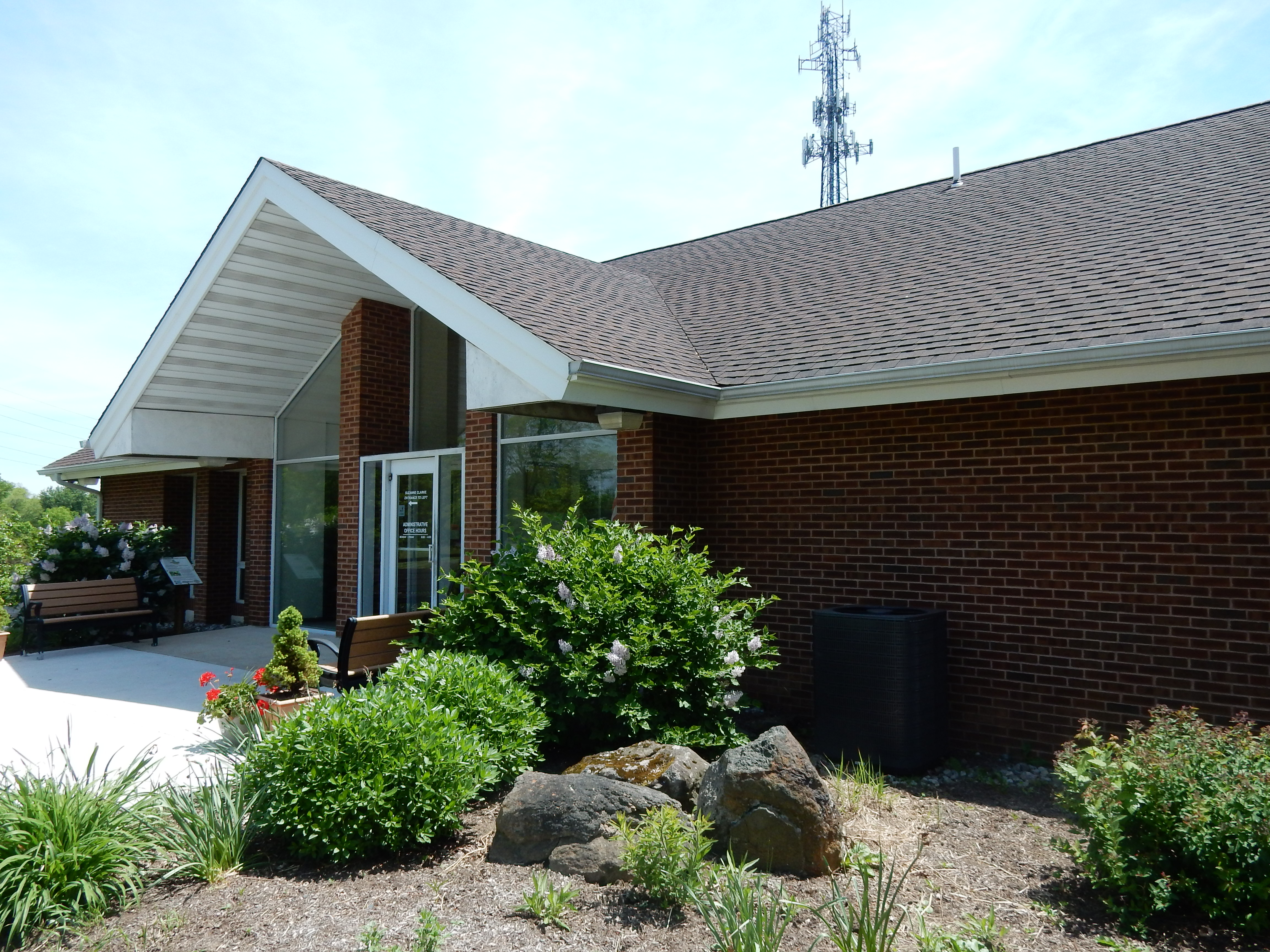 West Rockhill Township Municipal Offices, 1028 Ridge Rd., Sellersville, Bucks County, Pennsylvania.